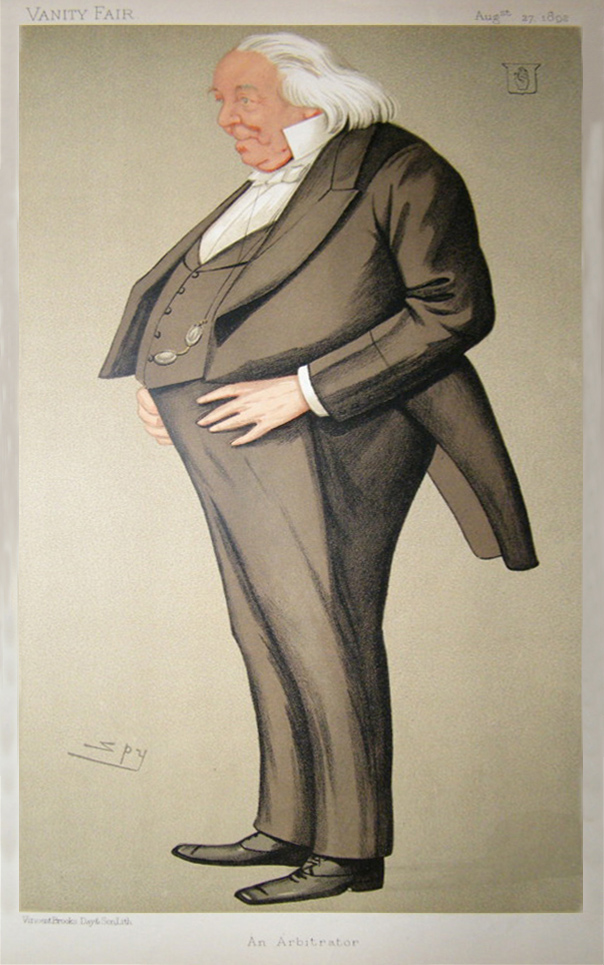 Caricature of Frederick Bramwell. Caption read "An Arbitrator".